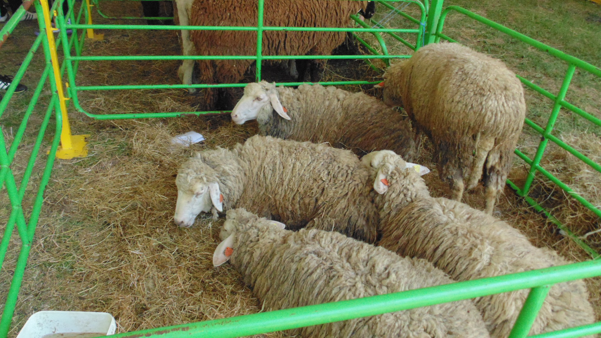 Stara Planina Tzigay